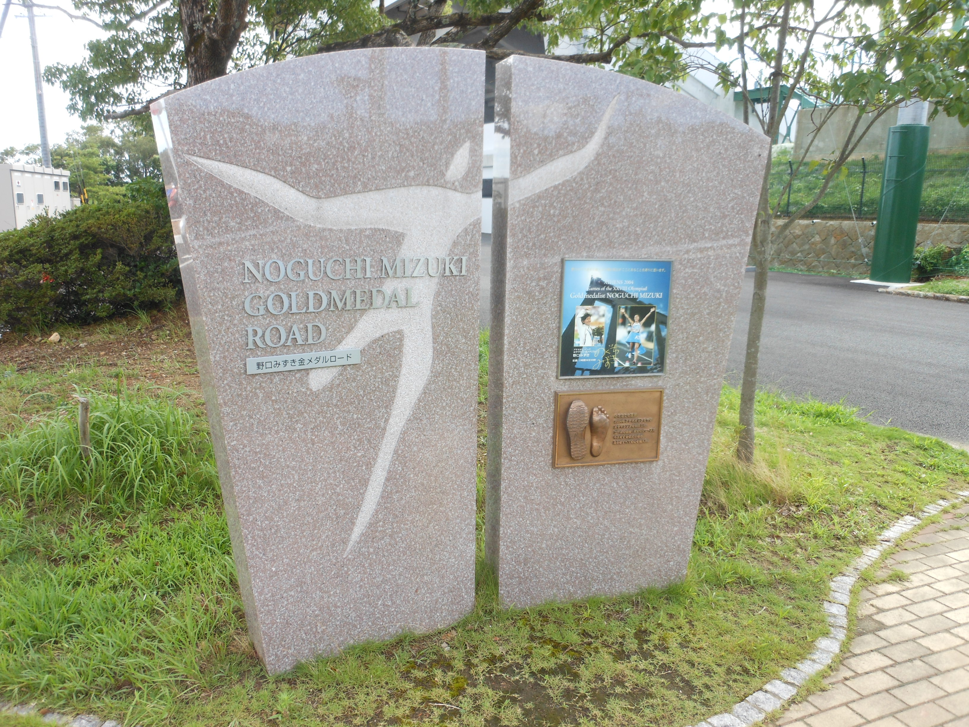 This is the monument for NOGUCHI Mizuki Road of Gold Medal in Ise, Mie, Japan.